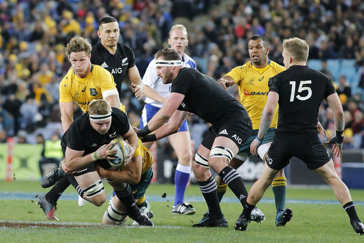 2017.08.19.20.36.08-Hanigan tackles Sam Kane-0002 2017 Rugby Championship, Bledisloe 1, Australia vs New Zealand, 19th August, ANZ Stadium, Sydney